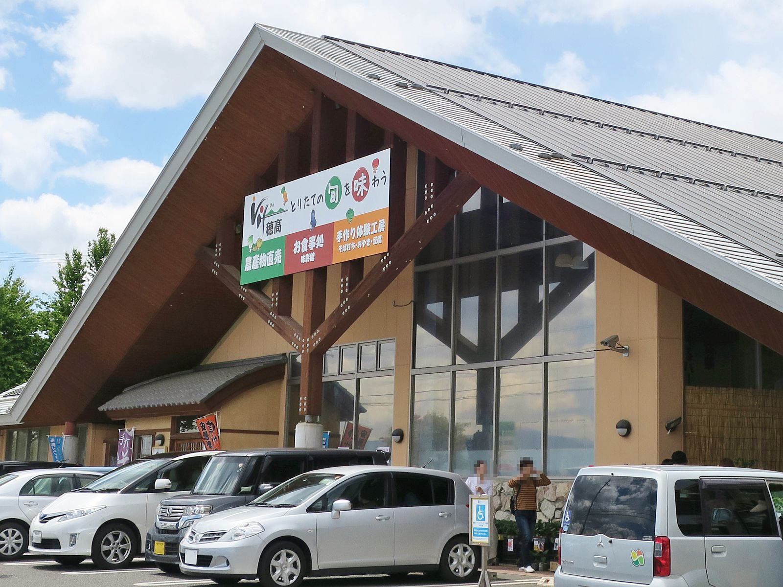 Vif Hotaka.